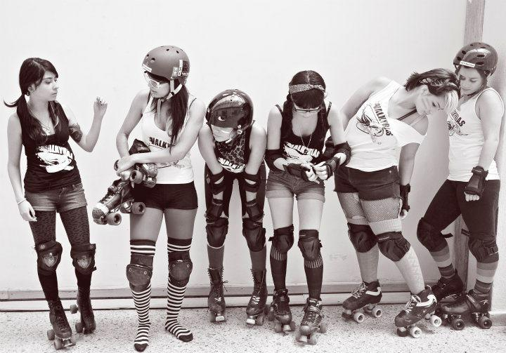 Valkyries of Manizales